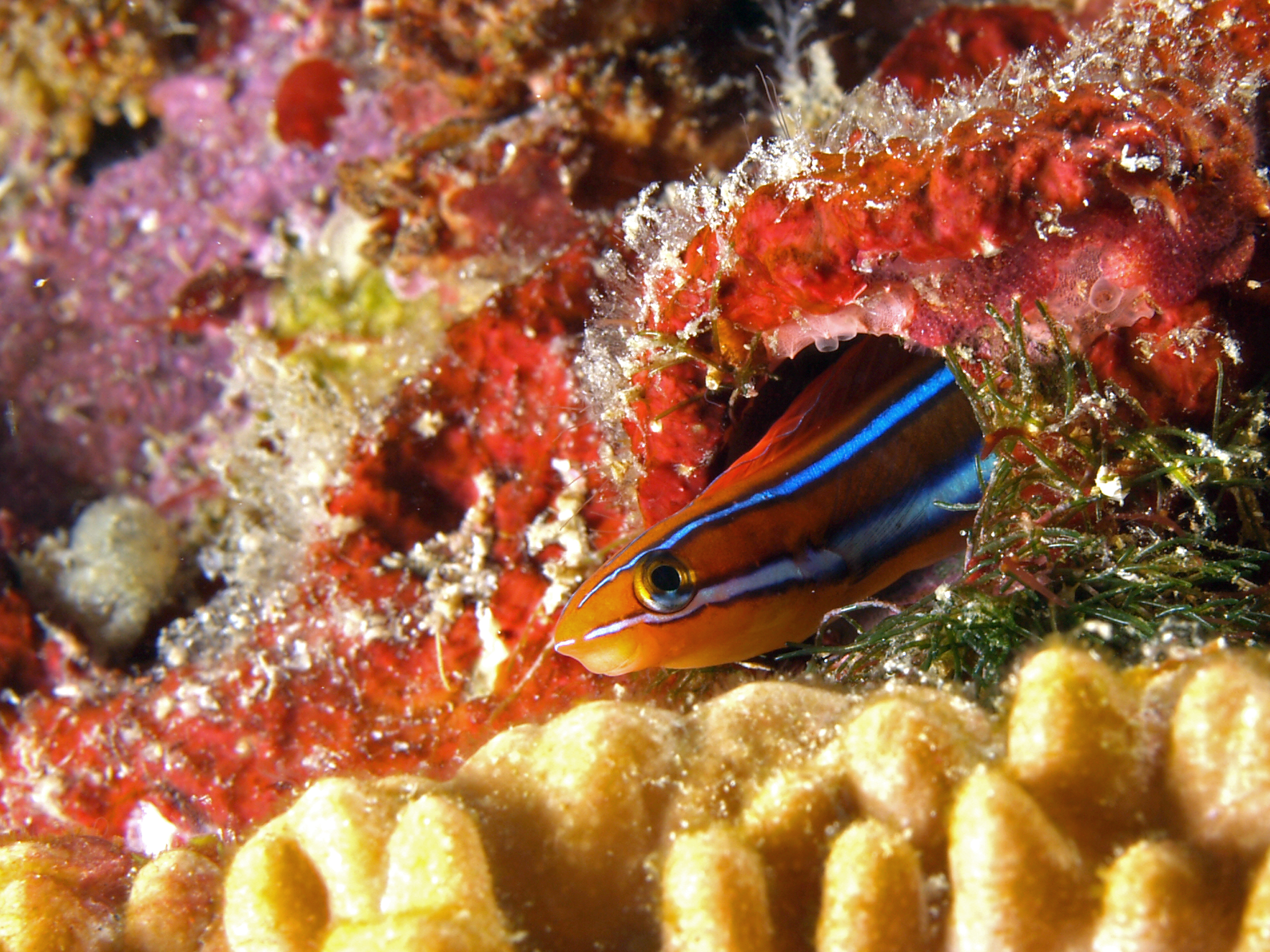 Sabertooth blenny will dart at other fish and bite off bits of their fins and scales. When threatened, it quickly swims into holes in the coral for protection. These little fish are know to nip at unsuspecting divers as well.